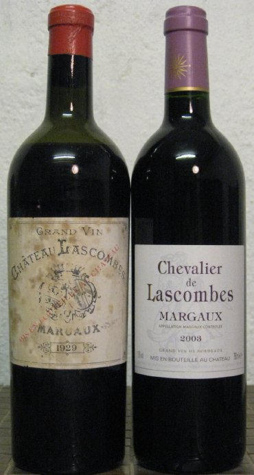 2shot of bottles from Château Lascombes